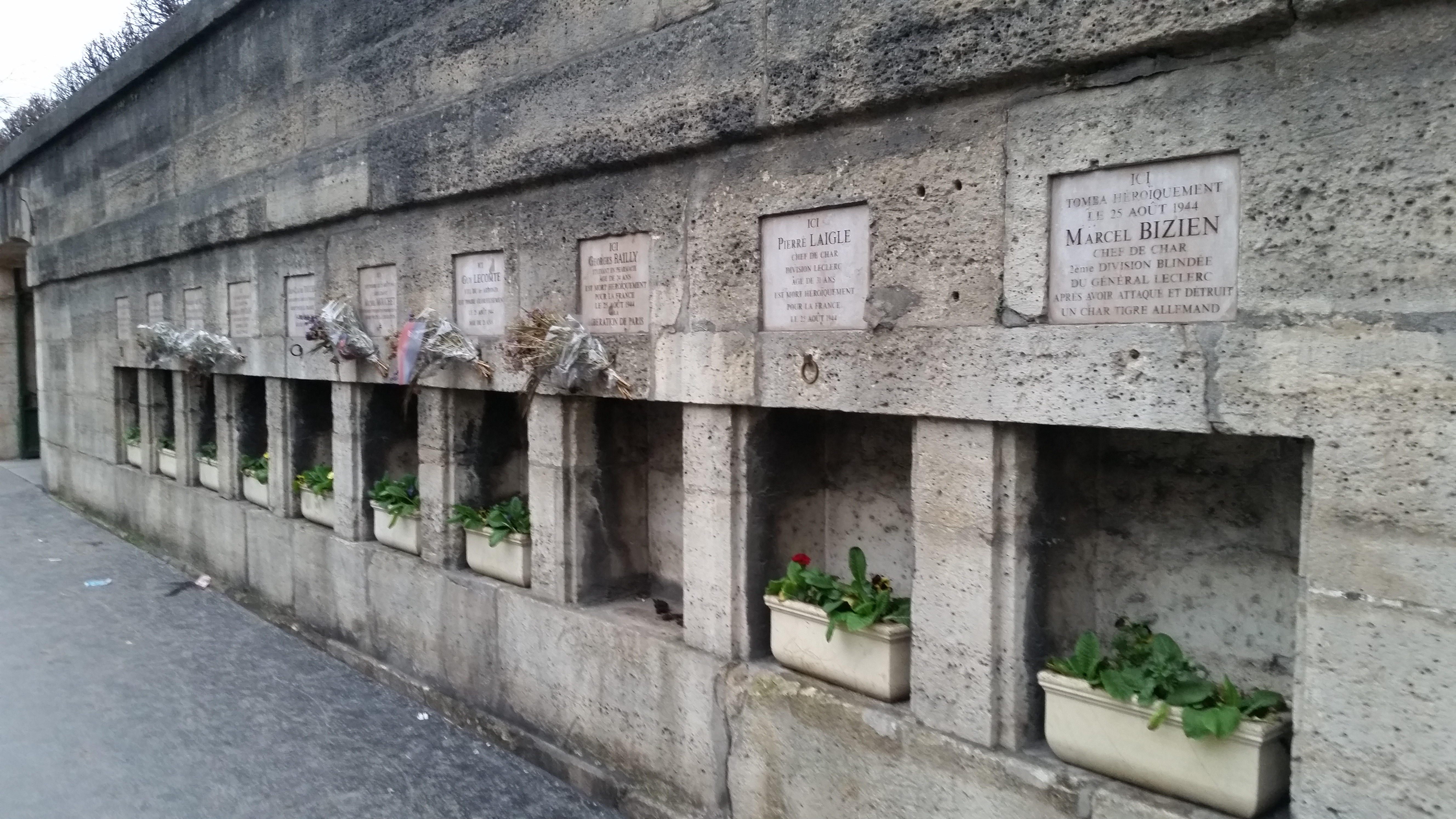 Memorial to those killed during the libration of Paris in WW II, along the Rue de Rivoli, Paris